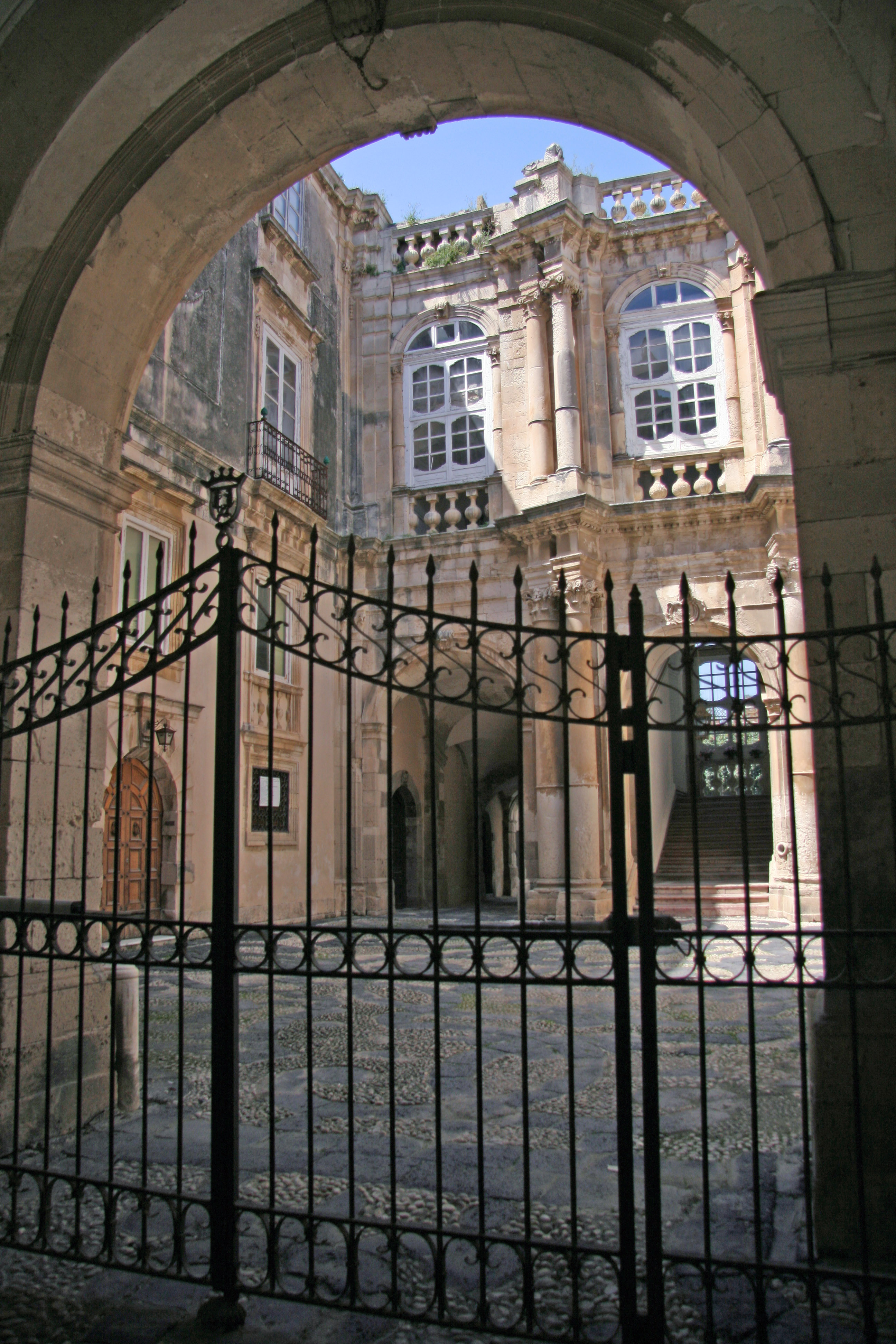 Courtyard of the Palazzo Beneventano del Bosco, Siracusa built in 1779 and home to Admiral Horatio Nelson, and others, from time to time.